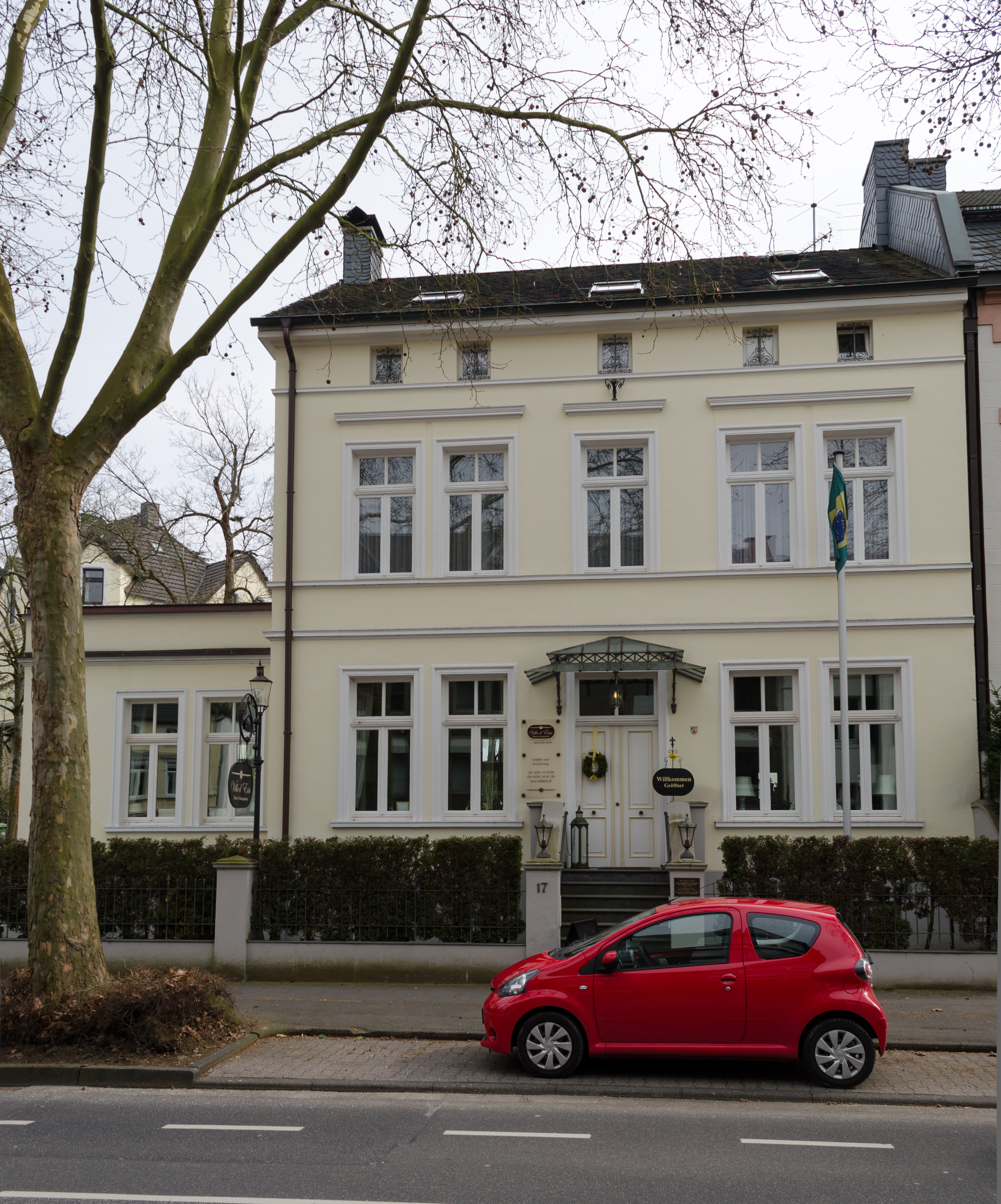 Cultural heritage monument in Bad Godesberg